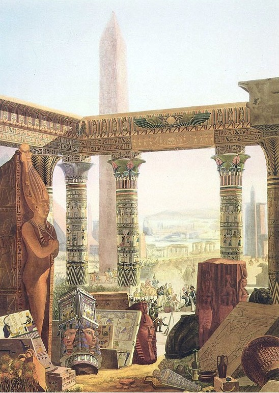 "Description de l´Egypte" (Description of Egypt). Frontispiz.